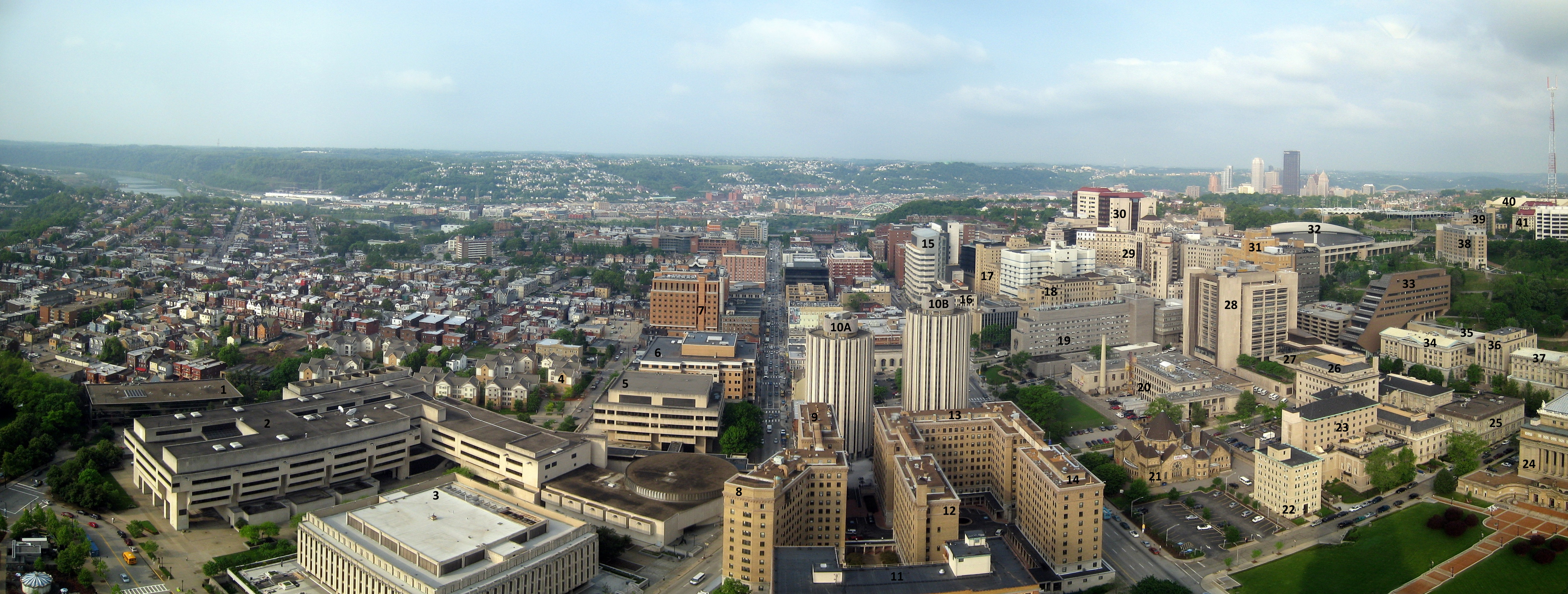 A view of the University of Pittsburgh and UPMC campuses, along with the Central Oakland business district along Forbes and Fifth Avenues, as seen (looking southwest) from the Cathedral of Learning on May 14, 2010. The Downtown Pittsburgh skyline is seen in the upper right. A series of numerical labels have been added to this picture to identify campus buildings according to the following list: Mervis Hall Wesley W. Posvar Hall Hillman Library Bouquet Gardens Barco Law Building Sennott Square Forbes Tower Bruce Hall Brackenridge Hall Litchfield Towers A and B William Pitt Union McCormick Hall Holland Hall Amos Hall Biomedical Science Tower 3 (UPMC) Falk Medical Building (UPMC) Lothrop Hall Children’s Hospital Parran Hall Frick International Studies Academy Building (non university building) Bellefield Presbyterian Church (non university building) University Place Office Building University Club Soldiers and Sailors National Military Museum and Memorial Concordia Club Thackeray Hall Engineering Auditorium Benedum Hall UPMC Presbyterian Biomedical Science Tower (UPMC) Thomas Detre Hall of the Western Psychiatric Institute and Clinic The John M. and Gertrude E. Peterson Events Center Learning Research and Development Center Allen Hall Van De Graff Building Old Engineering Hall Thaw Hall Pennsylvania Hall Panther Hall Cost Sports Center Sutherland Hall